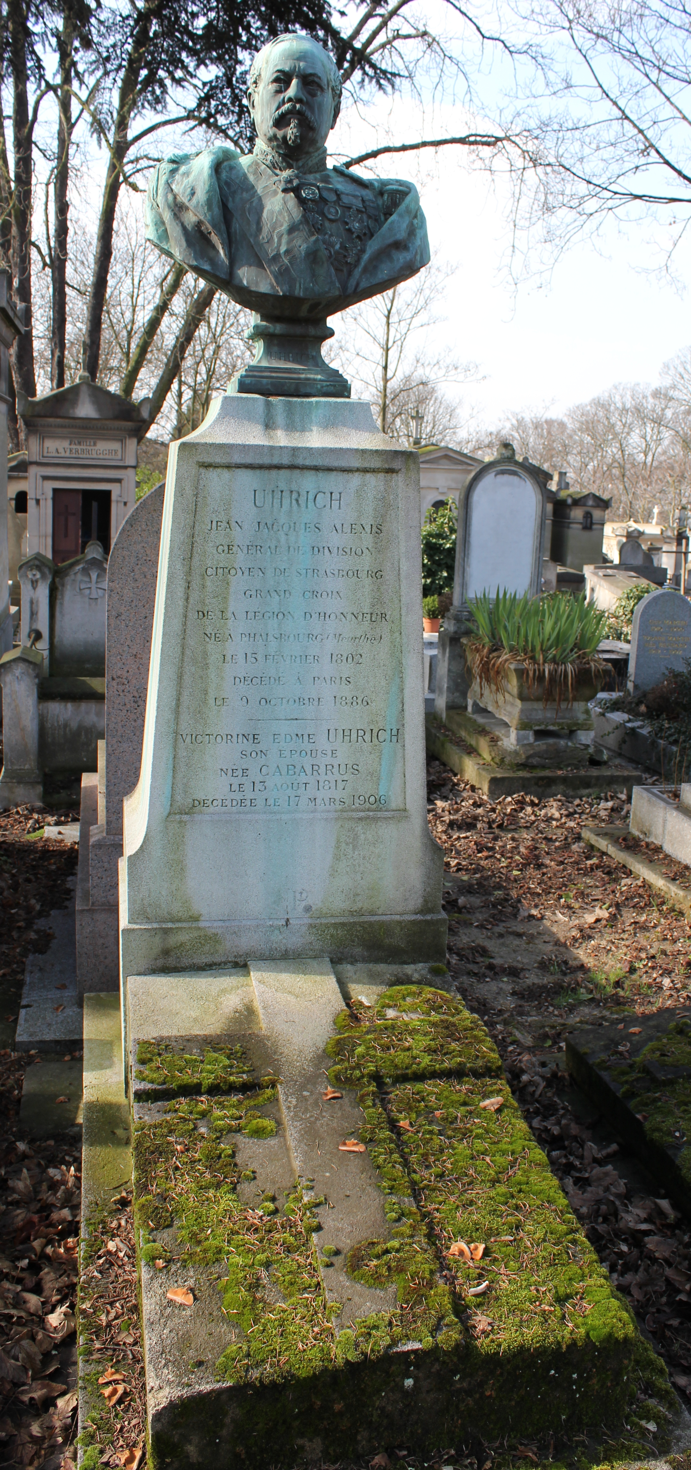 Jean-Jacques Uhrich's tombstone in Père Lachaise Cemetery, in Paris.